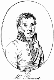 portrait du compositeur François Benoist